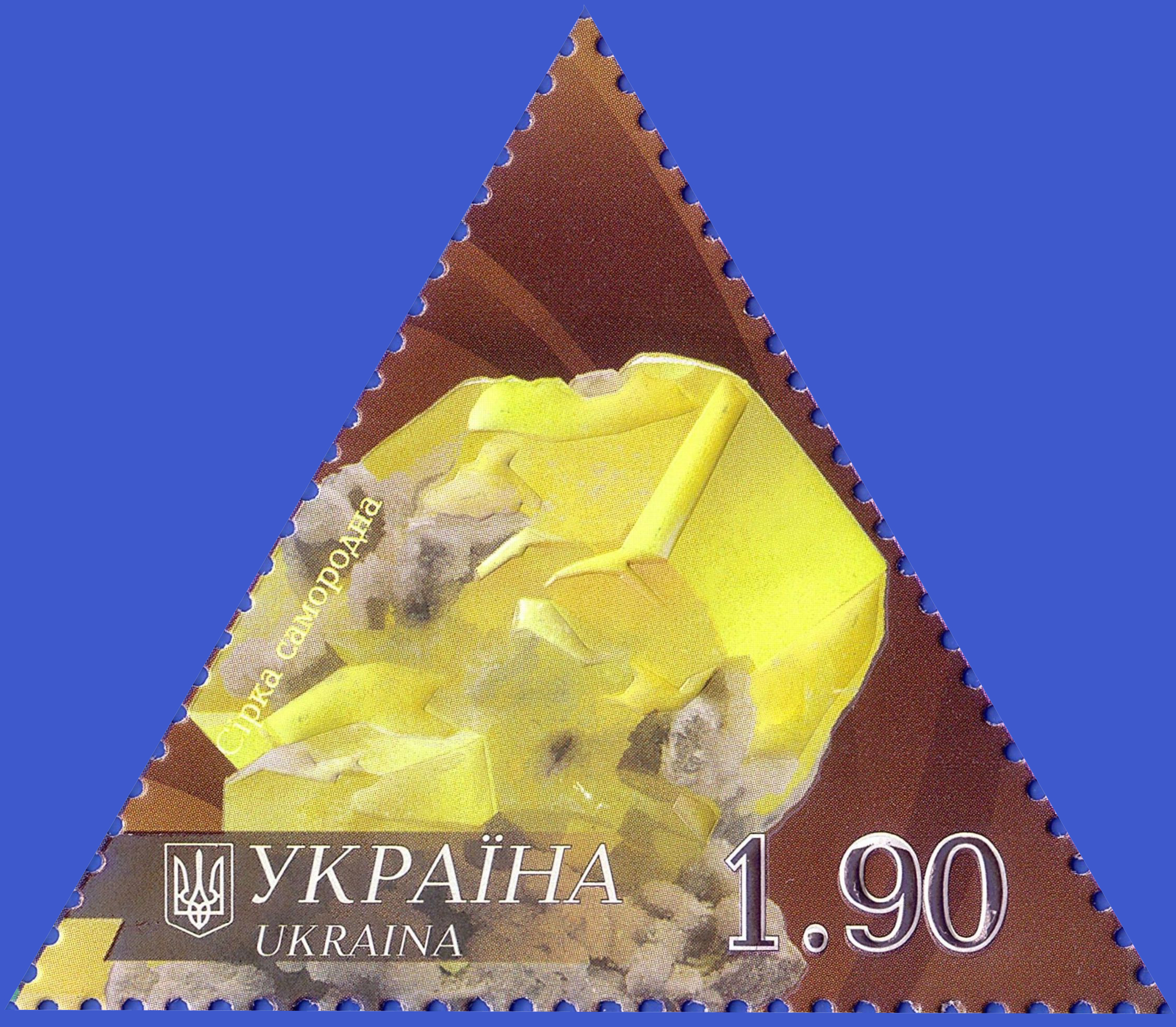 Triangular stamp of Ukraine from the series "Minerals". Face 1 c. 90 kopecks. 2009. Sulphur (brimstone).